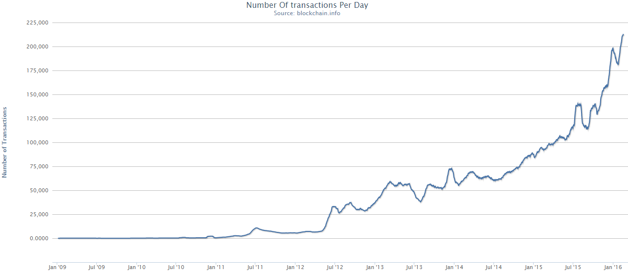 Chart : bitcoin transactions per day (30-day moving average.)